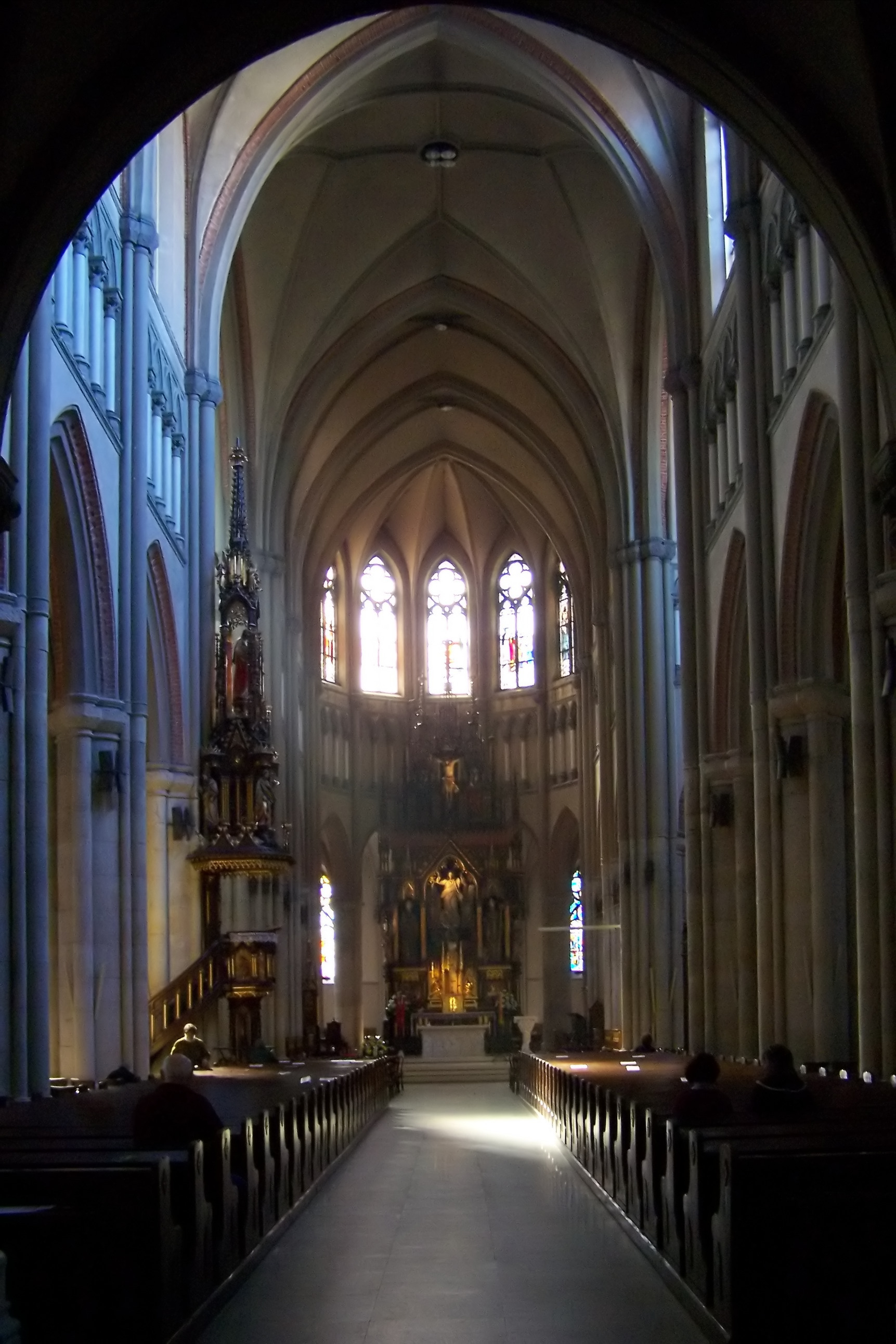 Catolic Archicatedral in Łódź (Poland).